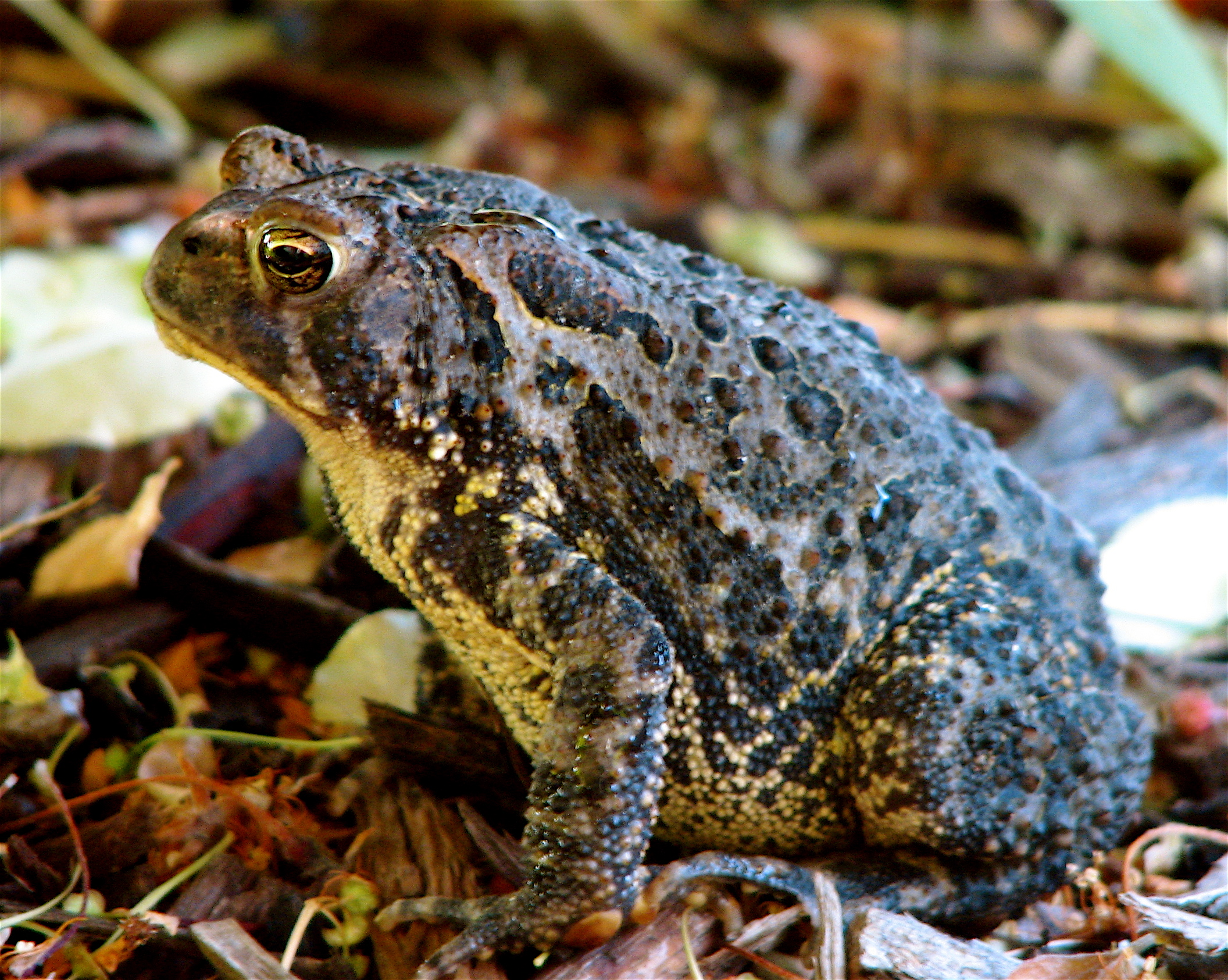 A Bufo americanus toad I found in my backyard.